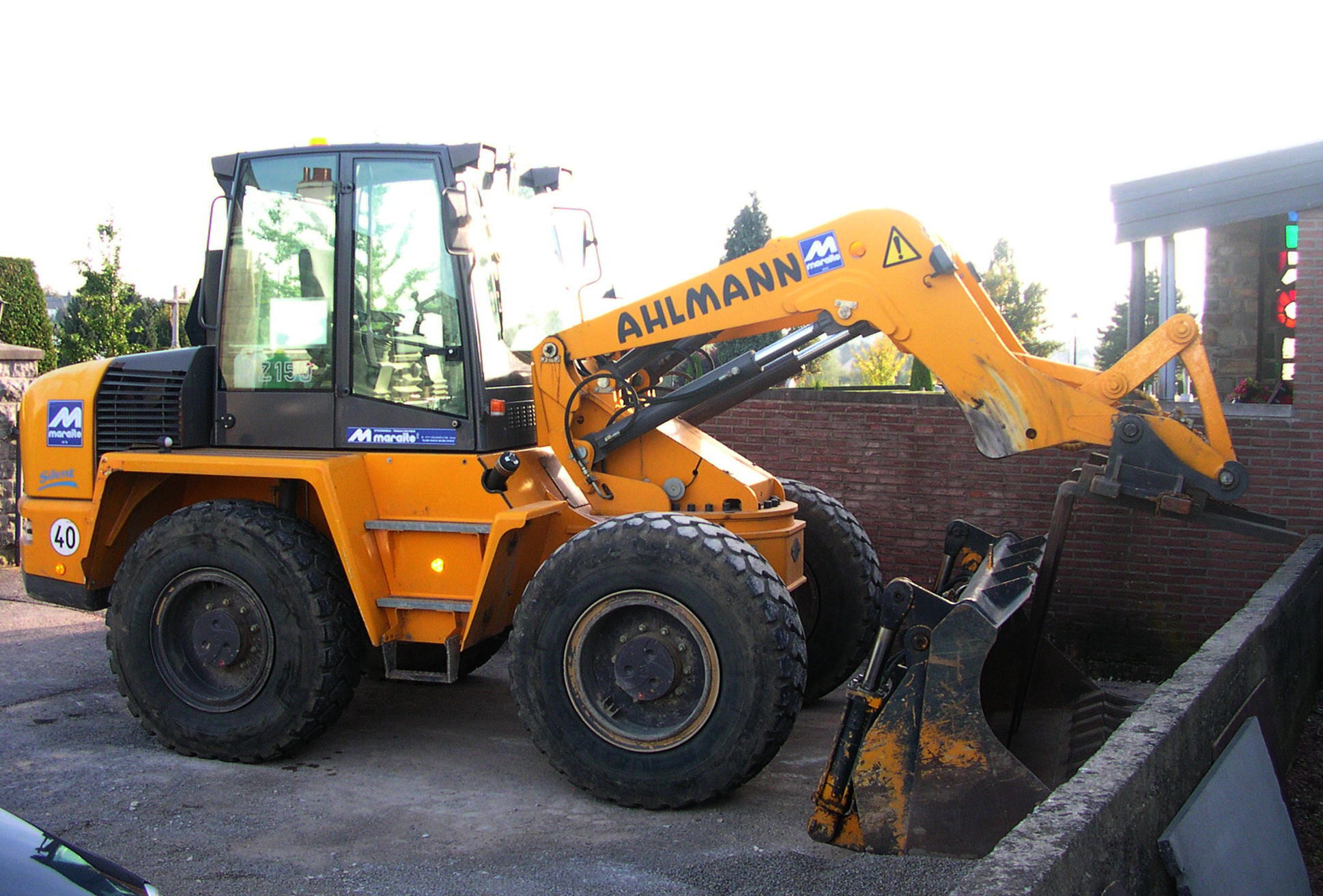 Ahlmann AS 150 Loader